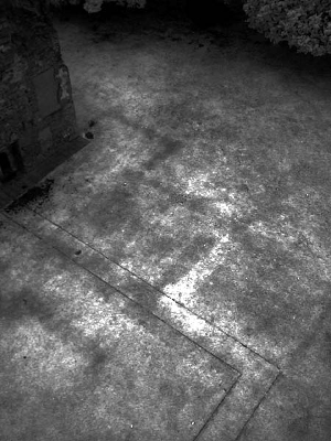 A near infra-red kite aerial photo outlining parching/pre-parching details of the foundations of a building at Rufford Abbey in Nottinghamshire: Wikidata has entry Q17650895 with data related to this item.